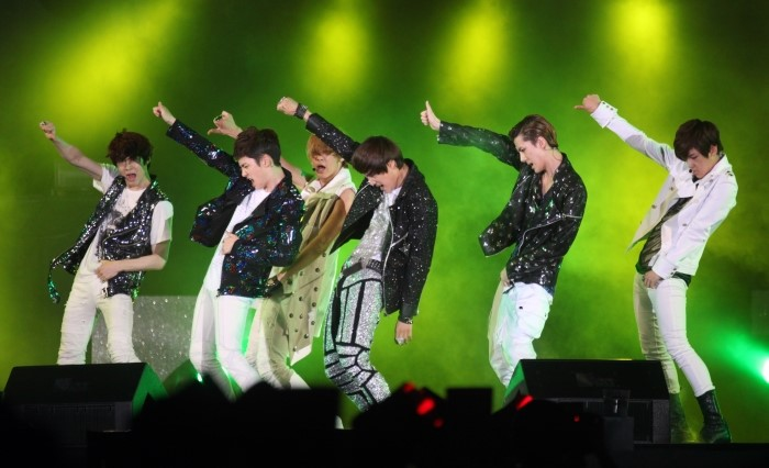 12 July 2012 Pop Festival in Yeosu.Português do Brasil: 12 de julho de 2012, Pop Festival em Yeosu.